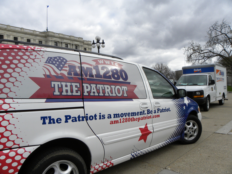 Vehicle owned by AM radio station WWTC "The Patriot" at a Tea Party Express rally outside the Minnesota state capitol building.